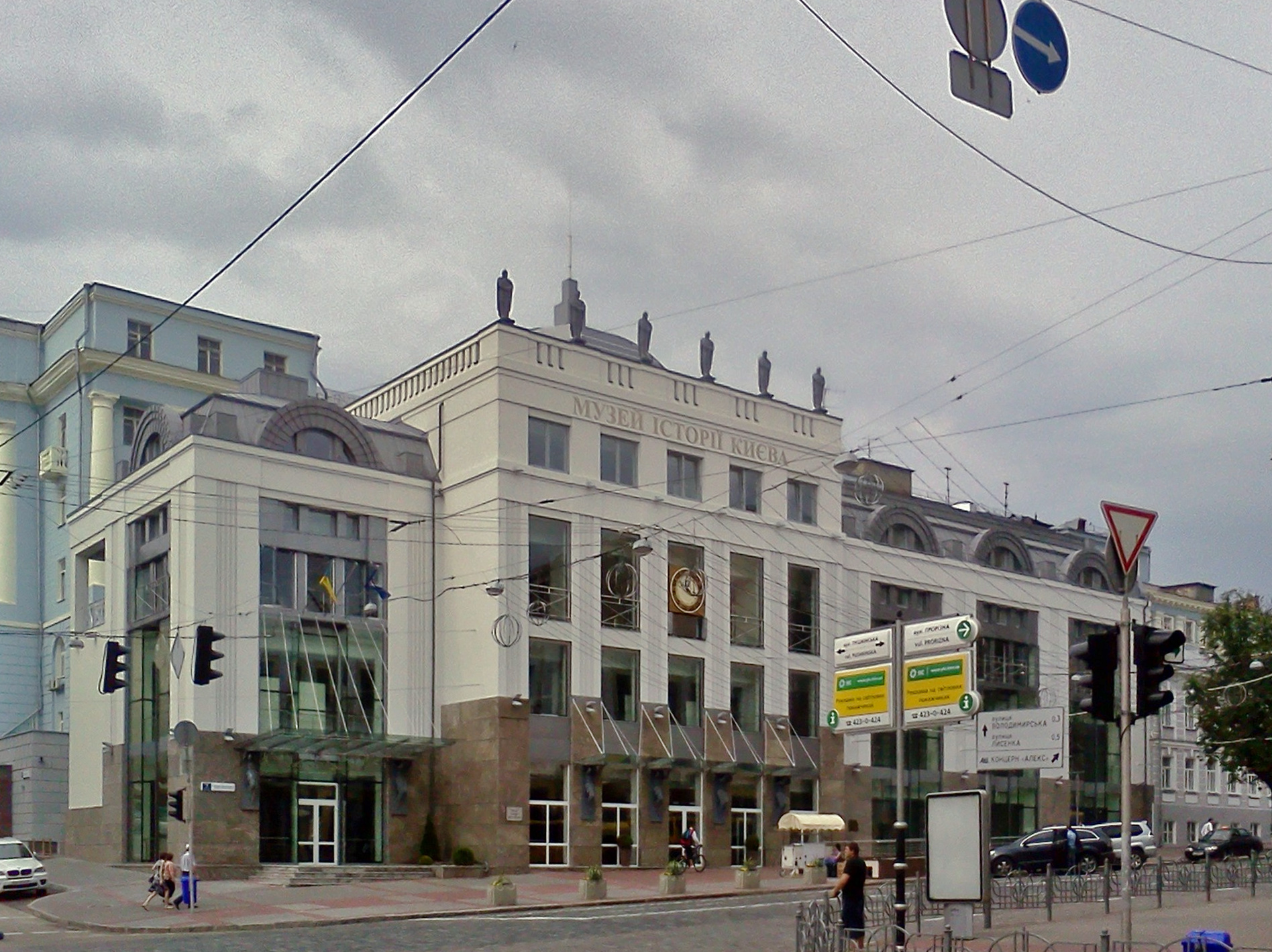 Museum histori of Kyiv